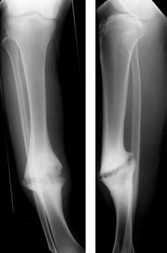 Hypertrophic nonunion tibia in 65 year old male.